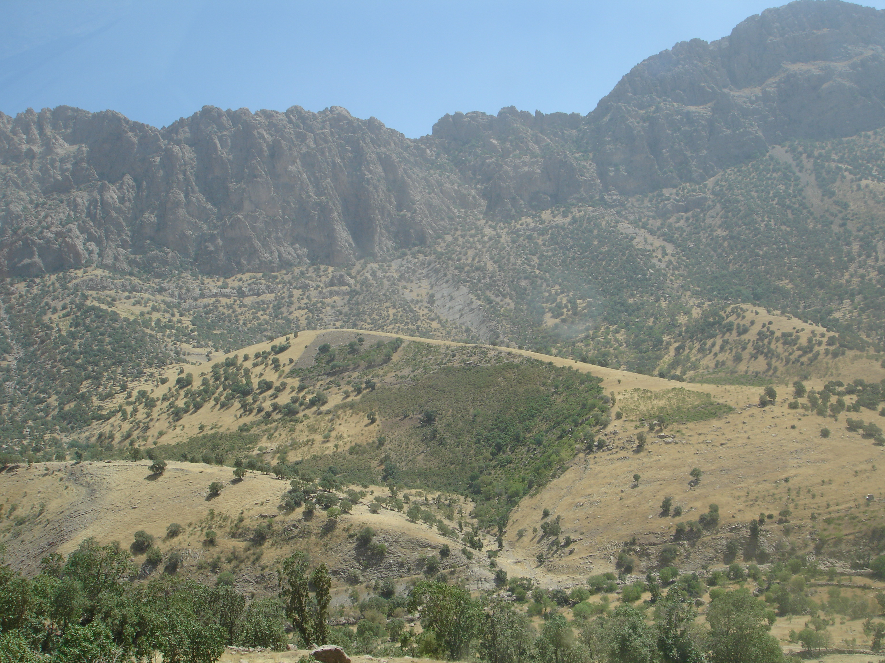 Landscape of Iraqi Kurdistan. Please refer to meta-data for more info.